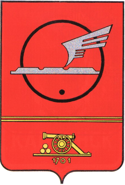 Kamensk-Uralsky (Sverdlovsk oblast), coat of arms (1971)